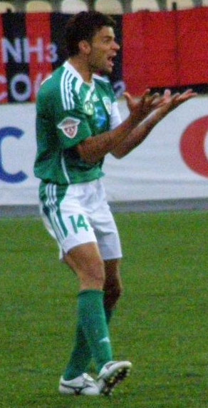 Valentin Iliev in action for FC Terek